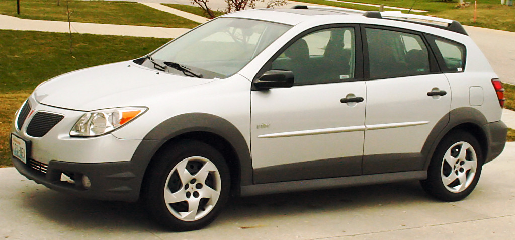 2006 Pontiac Vibe. Photo shot by Derek Jensen (Tysto), 2006-04-02